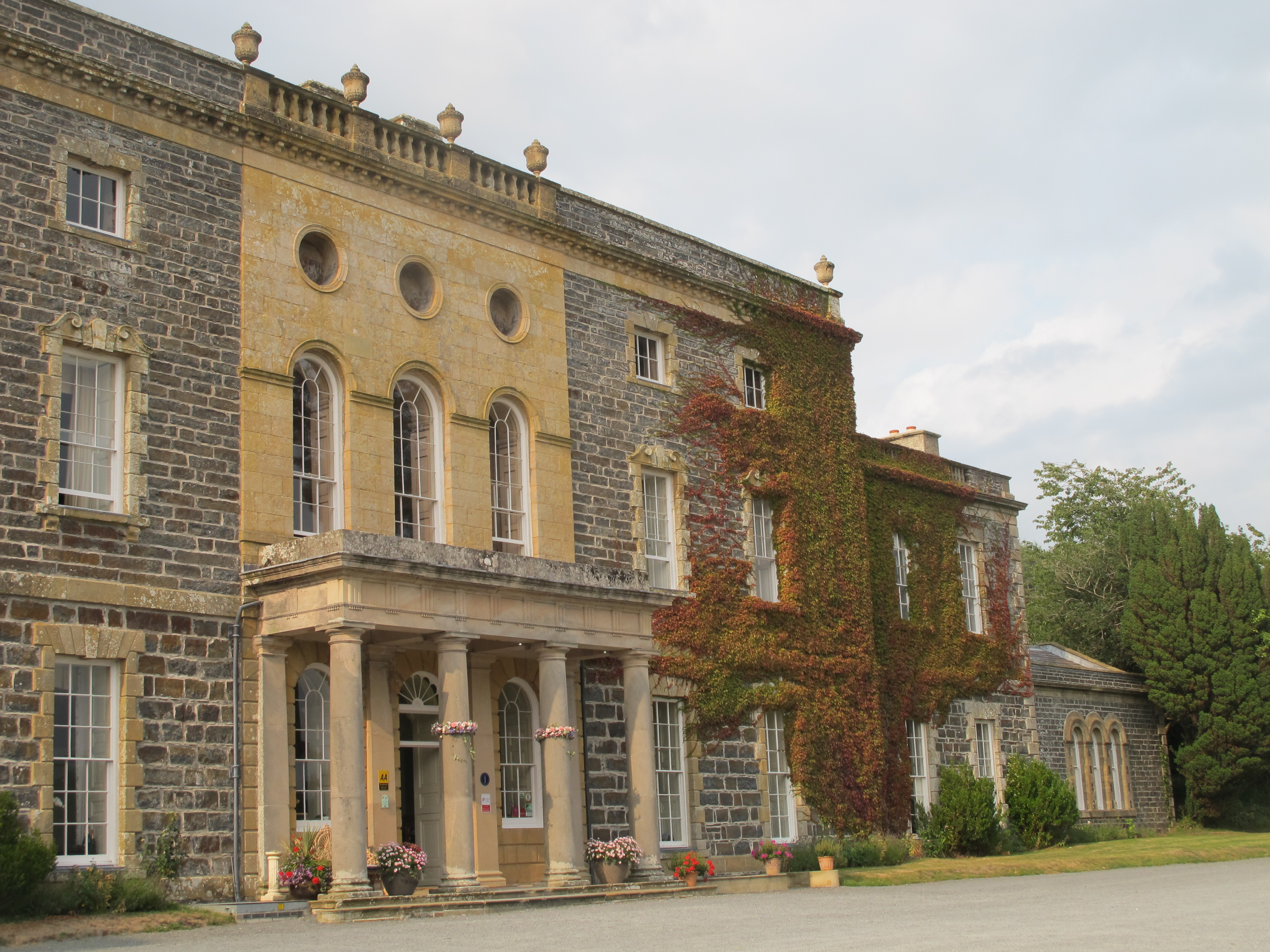 Nanteos Wikidata has entry Q17736008 with data related to this building.